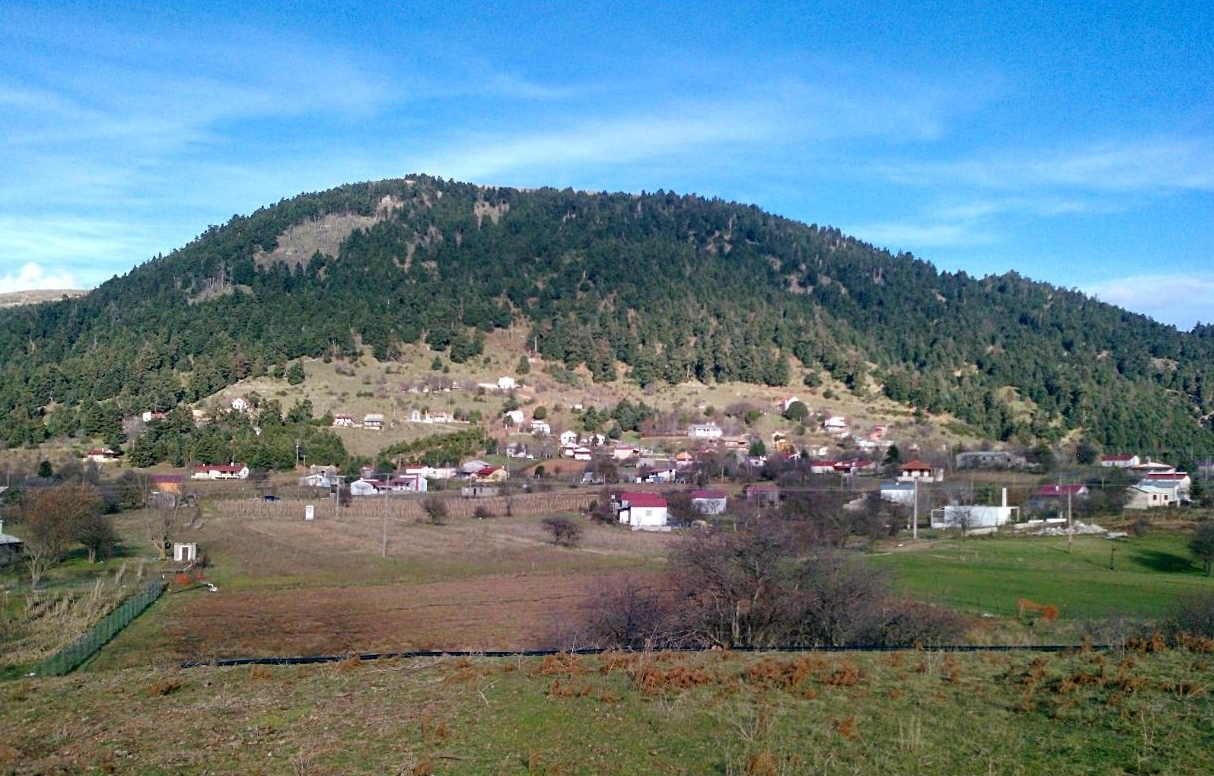 Partial view of Rakita vacation resort, Rakita Plateau, Achaia, Greece.